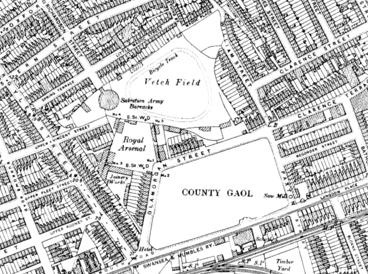 An Ordnance Survey map from 1899 showing the 'Vetch Field' site, prior to the football ground being built in 1912.